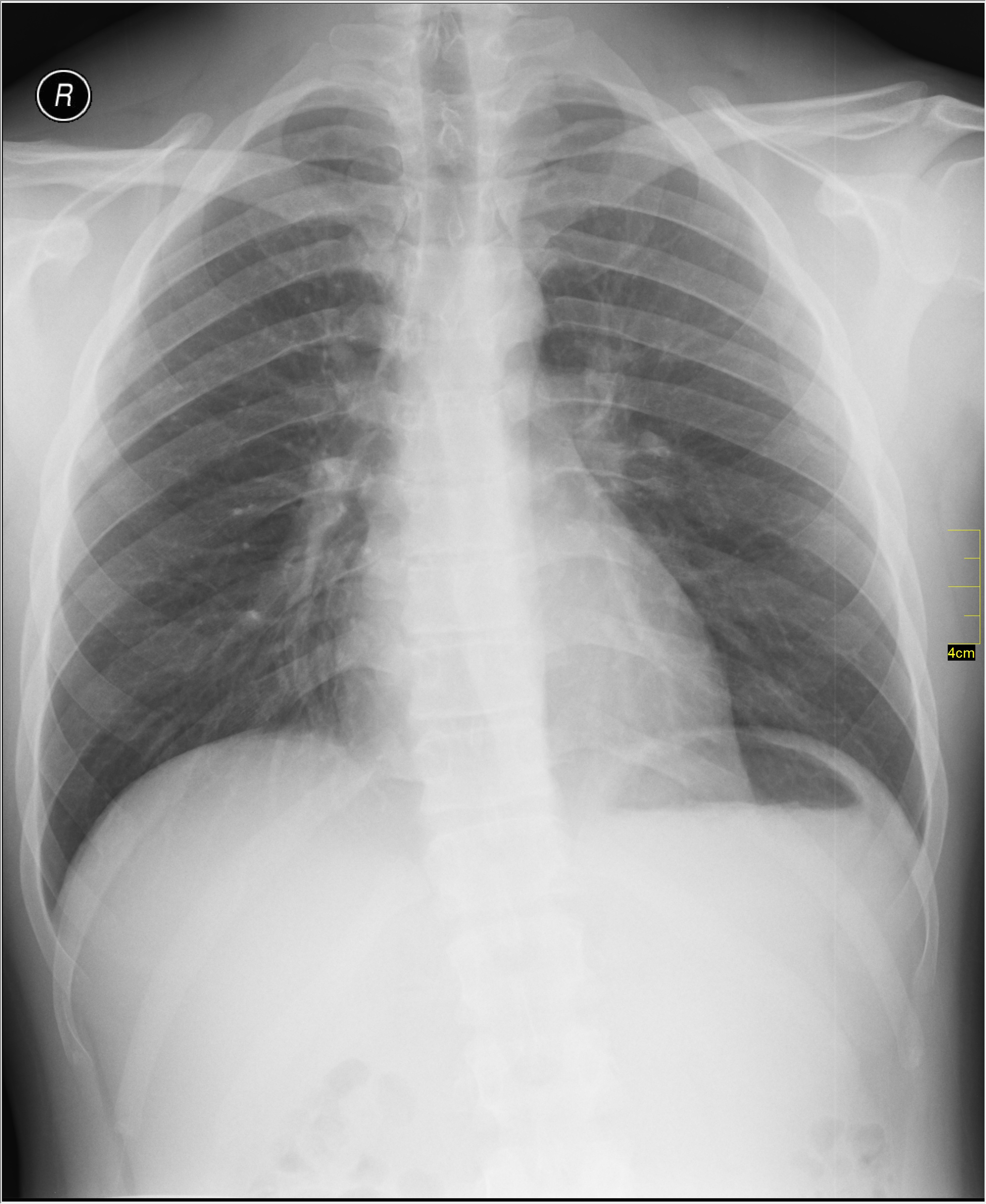 Roentgenogram or Medical X-ray image. May not be to scale.